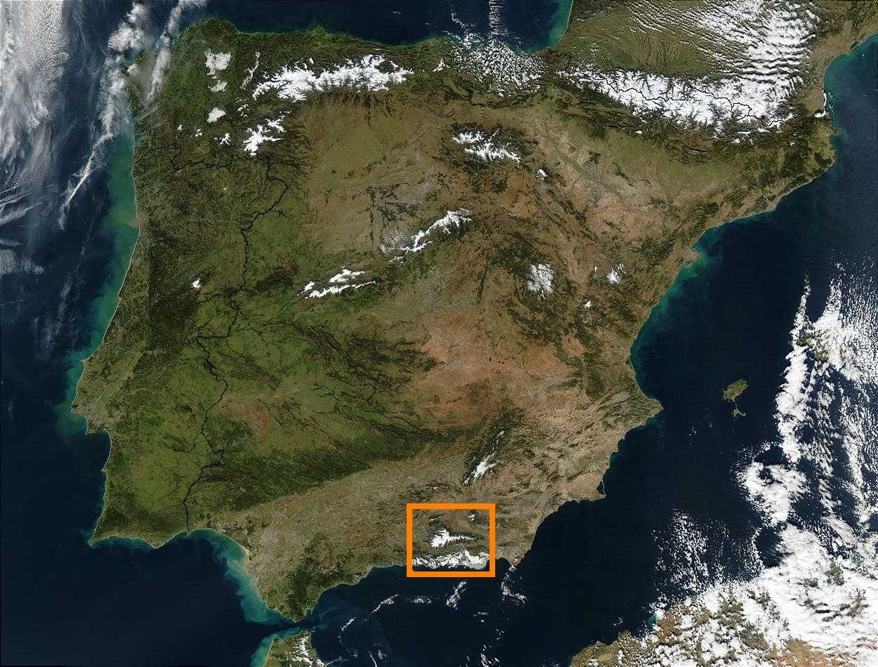 Situation of Sierra Nevada (Spain)